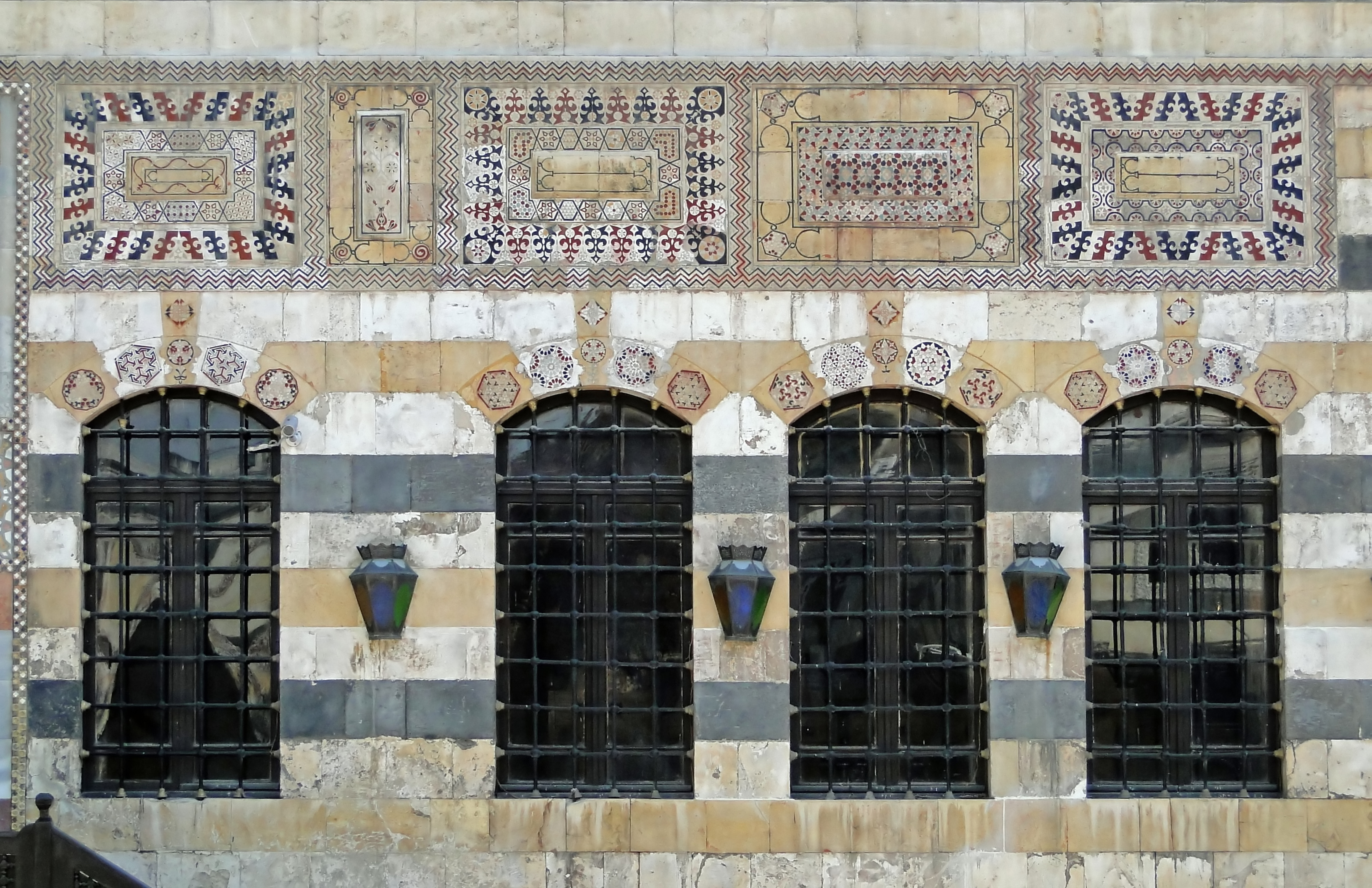 Detail of a facade of Azem Palace, Damascus, Syria